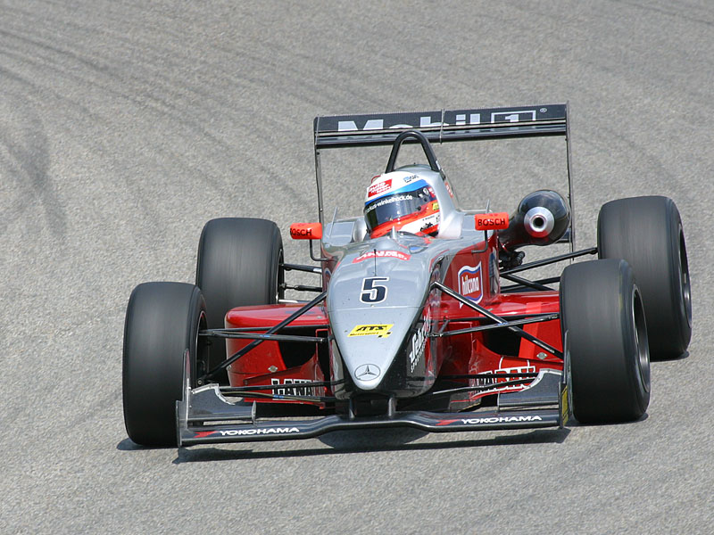 Markus Winkelhock, Formel 3 on Sachsenring Circuit.